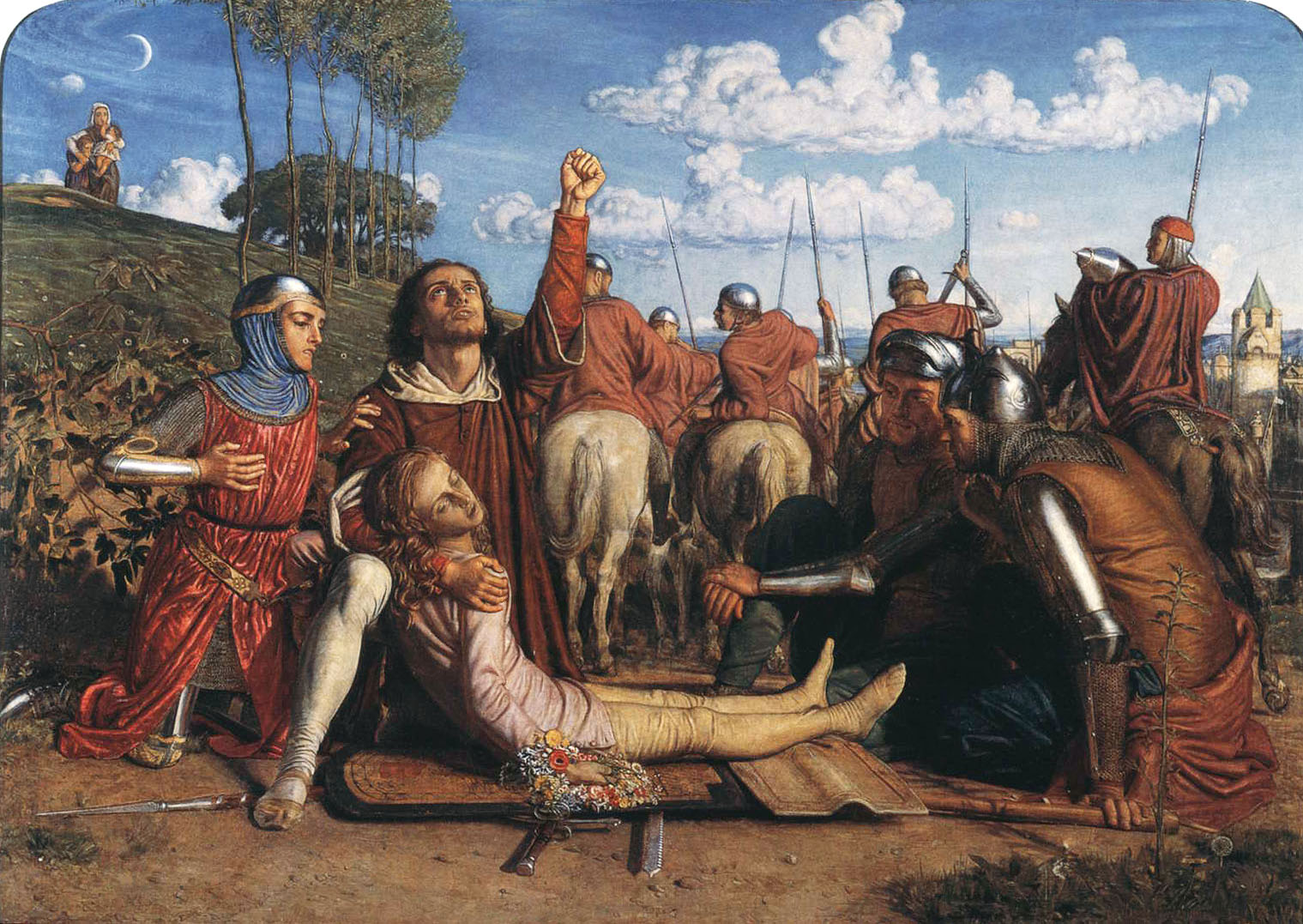 Rienzi vowing to obtain justice for the death of his young brother, slain in a skirmish between the Colonna and the Orsini factionslabel QS:Len,"Rienzi vowing to obtain justice for the death of his young brother, slain in a skirmish between the Colonna and the Orsini factions"label QS:Lru,"Риенци клянется отомстить за смерть своего младшего брата, убитого в схватке между кланами Орсини и Колонна"